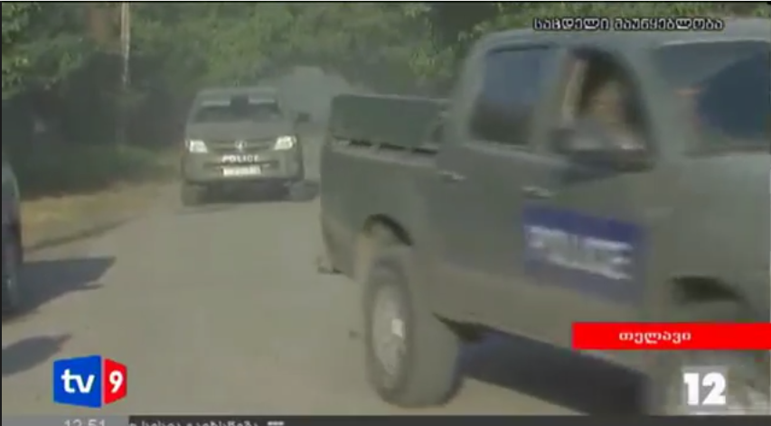 A screenshot of a TV9 footage showing the Georgian police vehicles entering the Lopota Gorge during a hostage crisis in the region in 2012.